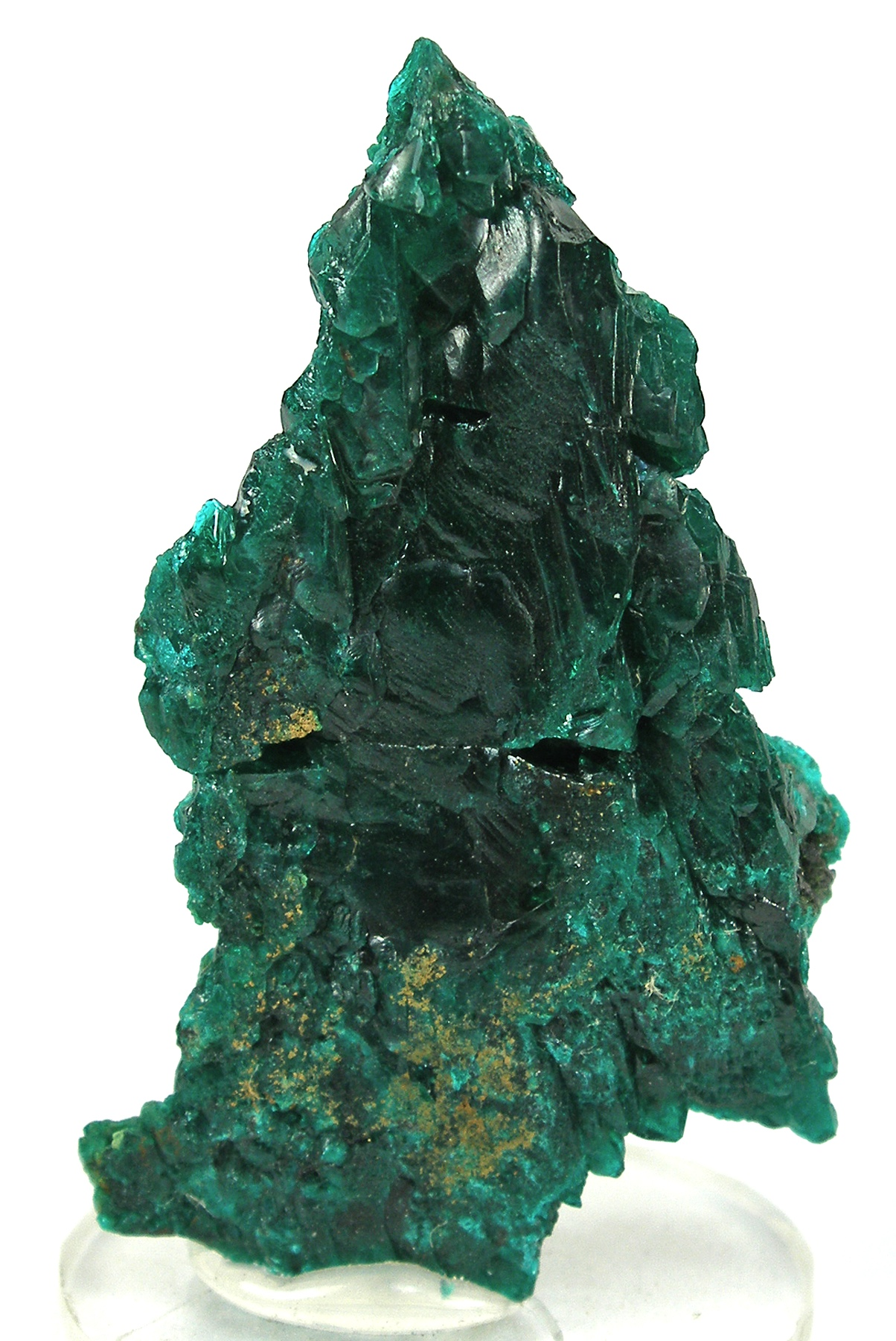 Euchroite Locality: Cramer Creek Cu deposit, Missoula County, Montana, USA (Locality at ) Size: miniature, 3.5 x 2.2 x 0.5 cm Euchroite (huge crystal) This is a ridiculously large euchroite crystal that perhaps is the largest American example of the species, according to some who I have shown it to. I have not heard of or seen any larger ones. It was collected by Bart Cannon, a well known collector of NE US minerals, in the 1970s and traded out of his collection sometime after. It is a unique, deep , vivid blue color that is hard to describe, but not similar to the euchroite from Europe in color or crystal form, by ay stretch. The piece is repaired in the middle and the photos show it at its worst, head-on right at the line of repair, to be honest about it. However when you look at it on a shelf, from an angle up or down, you do not see this crack as much. Now, it COULD be made into a truly incredible thumbnail specimen simply by undoing the repair. The result would be an arrowhead-shaped thumbnail crystal of 2 cm tall, 2 cm wide, and 4mm thickness. The lustre, and color, and habit, all make it leap out. It would be a world class thumbnail (without the repair) and in any case is a major US specimen in either size category. If it doesn't sell, I think I will have to donate to the Smithsonian as its the kind of rock that belongs there.